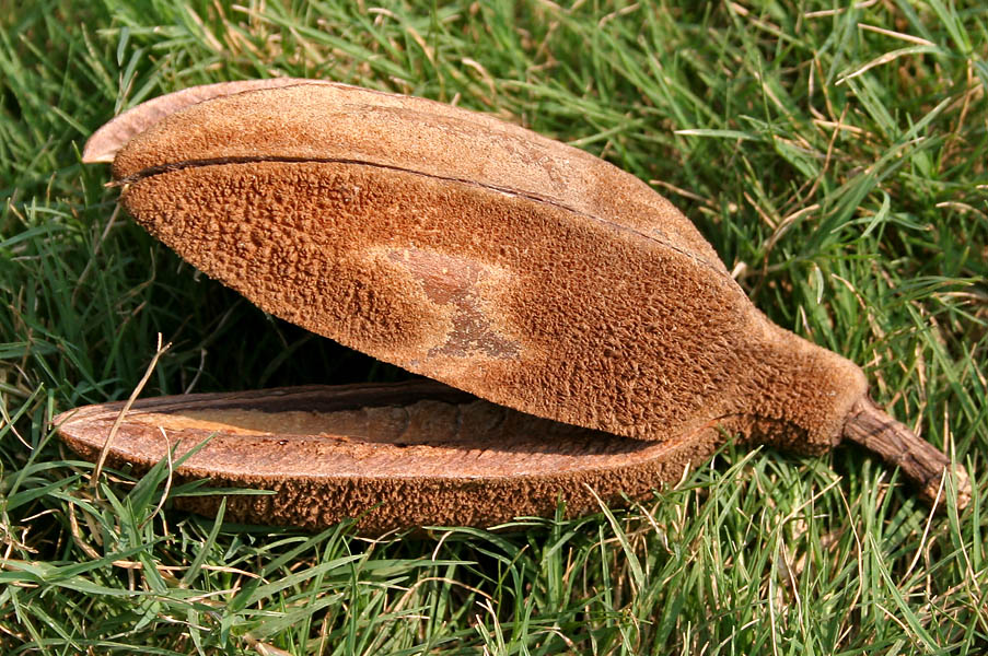 Pterospermum acerifolium - Kanak Champa, Moochukund, Bayur tree, Dinner Plate Tree, Karnikar Tree or Maple-Leafed Bayur Tree near Hyderabad, India.